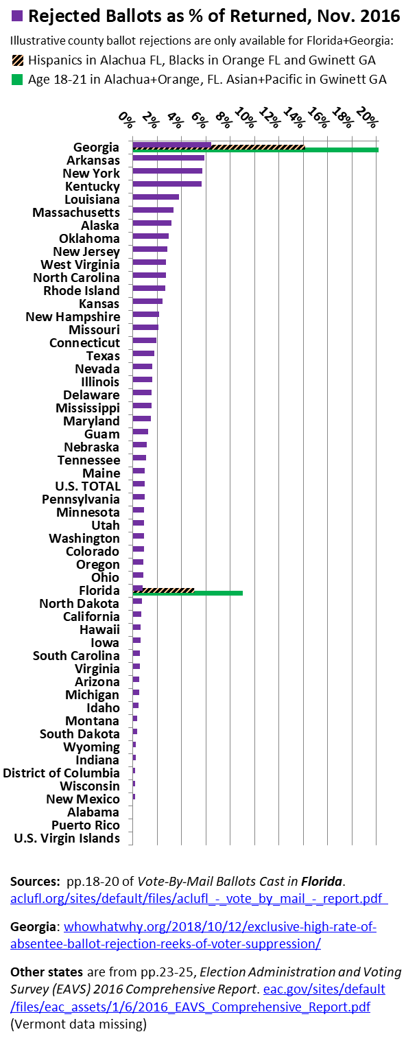 Rejected postal ballots as percent of all postal ballots returned, by state, with illustrative data for two university counties in Florida. Illustrative substate ballot rejections are only available for Florida. Sources: Florida from pp.18-20 of Vote-By-Mail Ballots Cast in Florida. which has rejection rates for each county for all postal ballots, and for those claiming to come from Hispanics and blacks. It also has county data by age of voter, and covers efforts to cure initial rejections. Georgia from Other states are from pp.23-25 of Election Administration and Voting Survey (EAVS) 2016 Comprehensive Report. Vermont is omitted. The source shows 96,000 postal ballots sent to voters, but has no count of ballots returned or rejected.